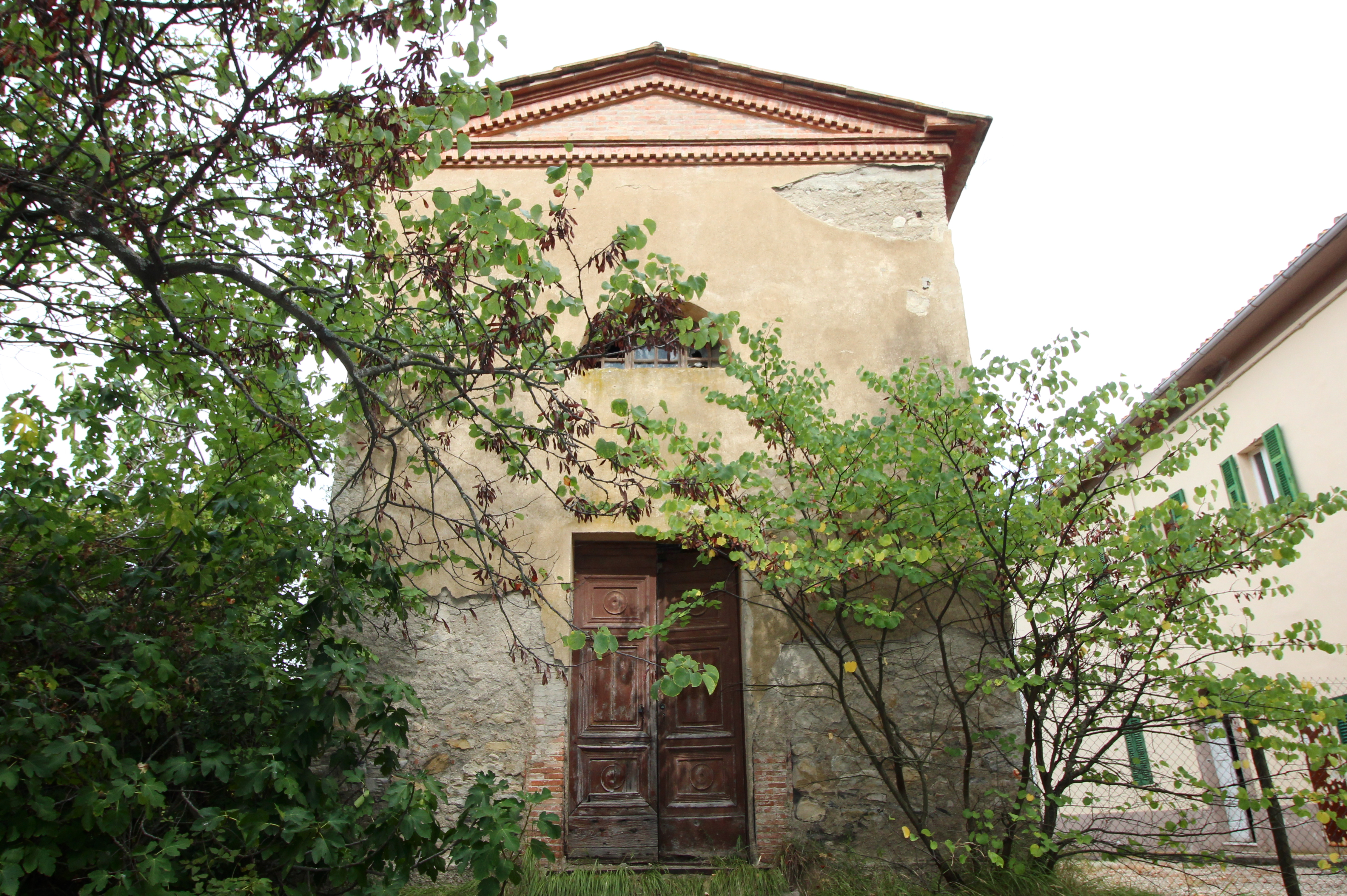 Church/Oratory Oratorio della Madonna di Montenero, Lago Boracifero, hamlet of Monterotondo Marittimo, Province of Grosseto, Tuscany, Italy.